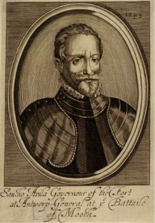 Sancho d'Avila (1523-1583), Spanish General